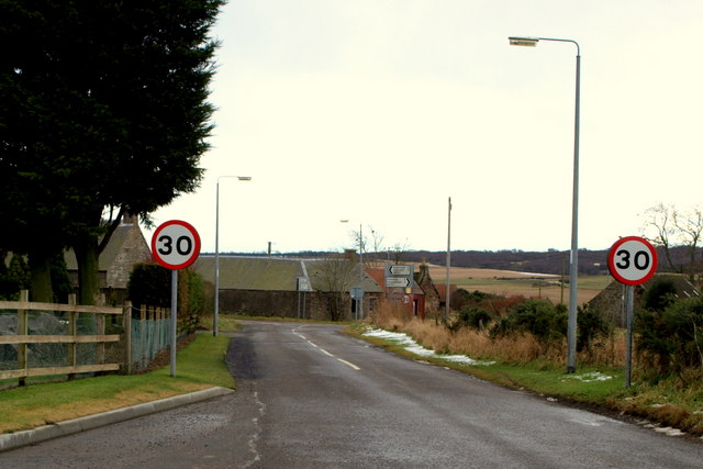 View of Whigstreet Village